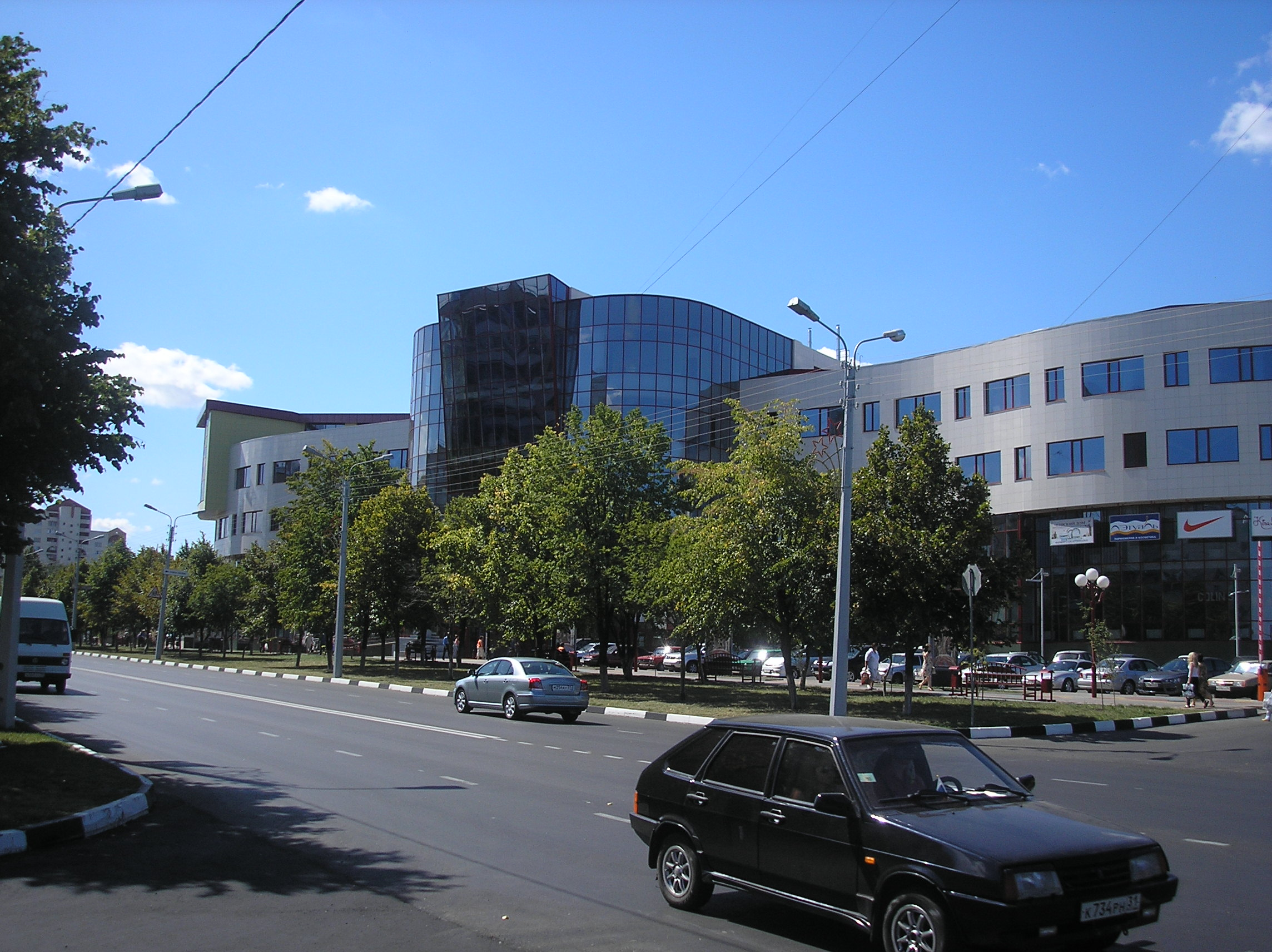 Торговый центр Модный бульвар г. Белгород